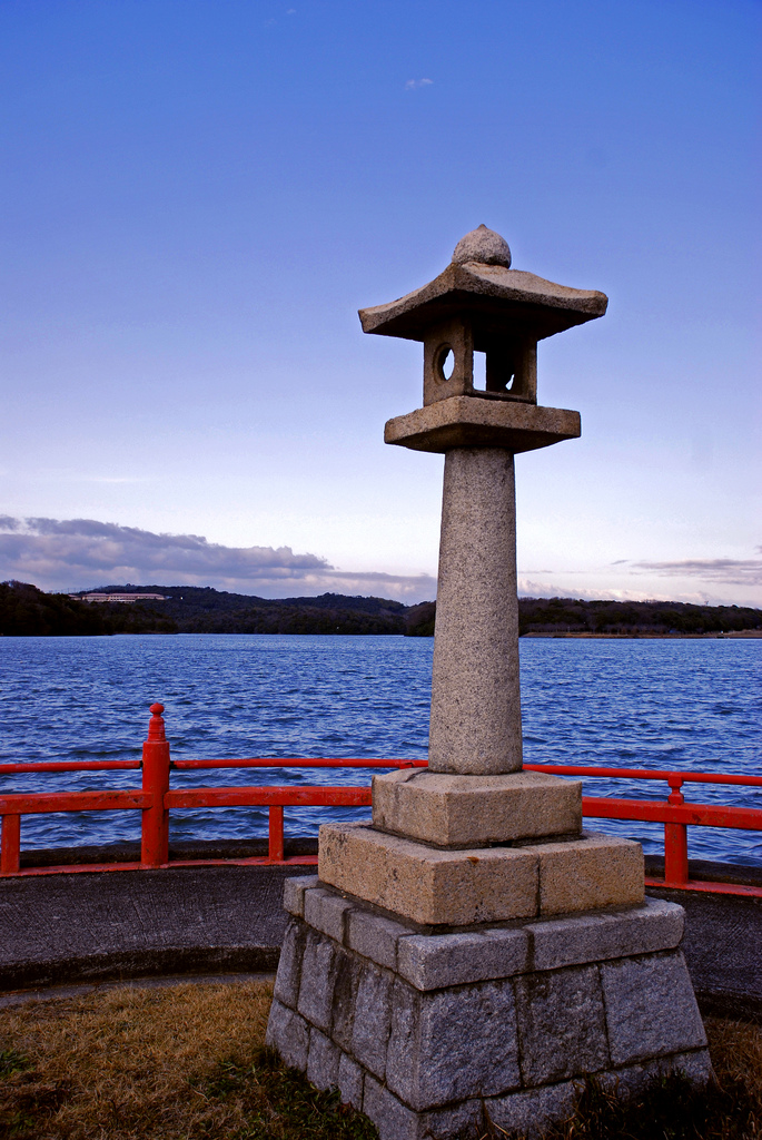 A statue in Tokiwa Park in Ube, Japan.